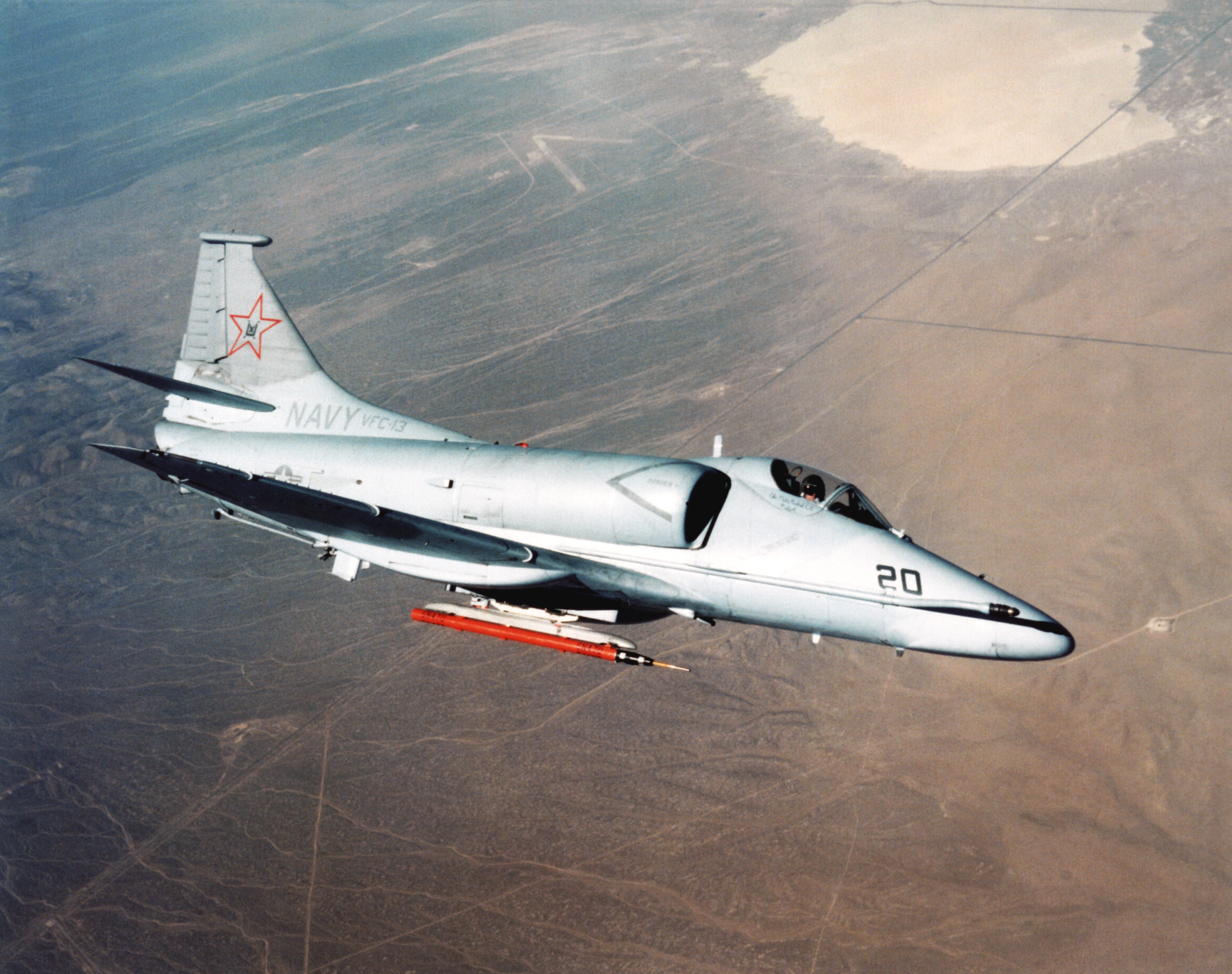 A U.S. Navy Douglas A-4F Skyhawk assigned to Fighter Squadron Composite VFC-13 Saints at Naval Air Station Fallon, Nevada (USA), in flight. The Skyhawk is carrying an Air Combat Maneuvering Instrumentation (ACMI) pod, which allows details of air-to-air engagements to be transmitted to a ground station for later analysis. VFC-13 provided adversary training as part of the U.S. Navy's Top Gun program.